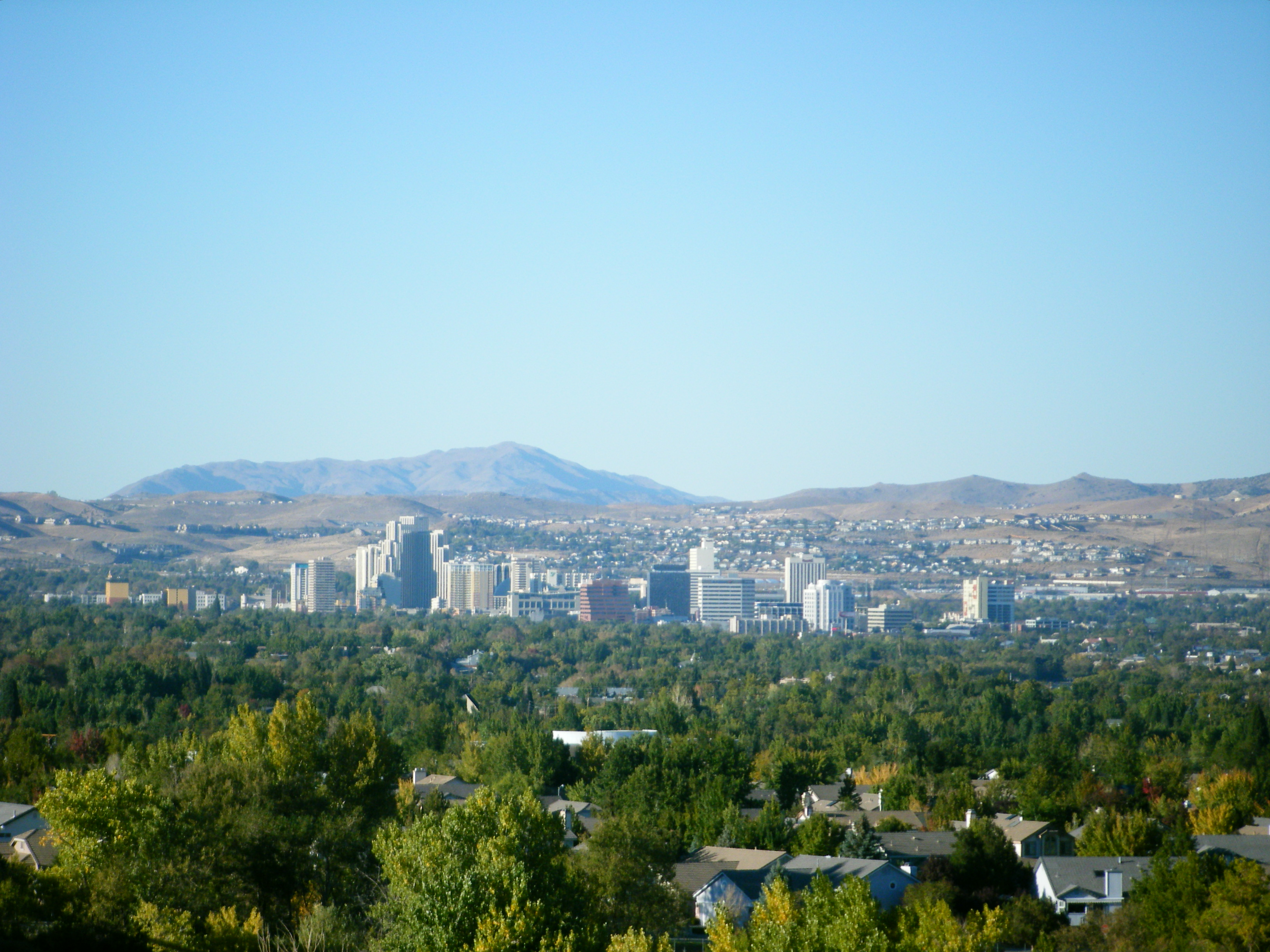 Skyline of Reno, Nevada. Camera is looking north towards downtown from Audrey Harris Park on Lakeside Drive.